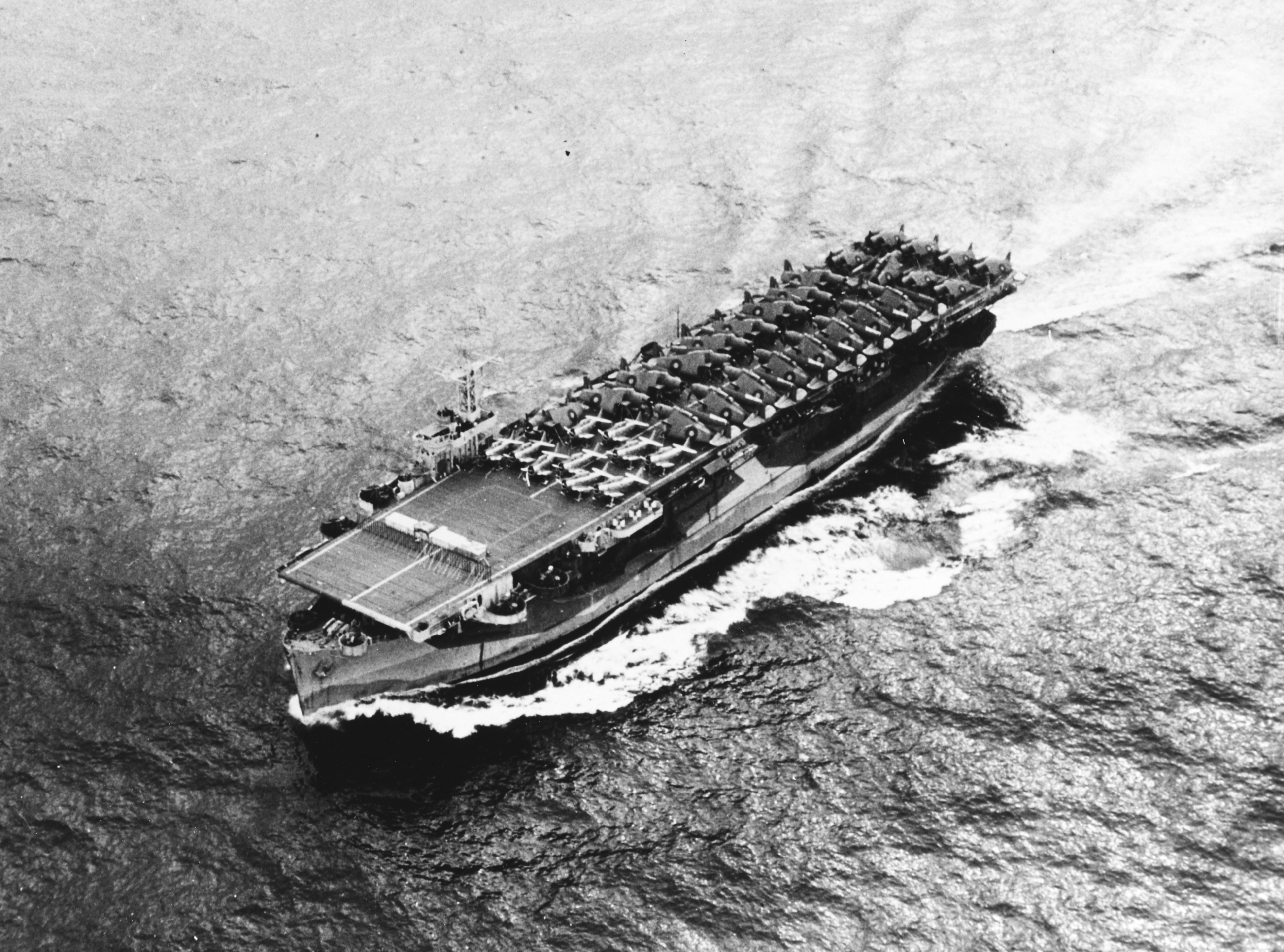 The Royal Navy escort carrier HMS Atheling (D51) (ex-USS Glacier (CVE-33)) underway on 22 December 1943. She has a deck load of U.S. Navy aircraft types in British markings, including: ten North American "Harvard" trainers (T-6 Texan), 18 Grumman Avenger torpedo bombers, and seven Grumman Hellcat fighters.